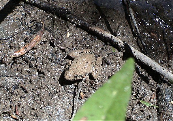 Northern Cricket Frog, Acris crepitans from Austin, Texas